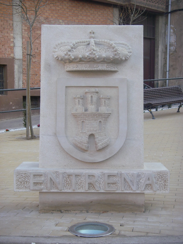 View of Entrena's Coat of Arms in a square.